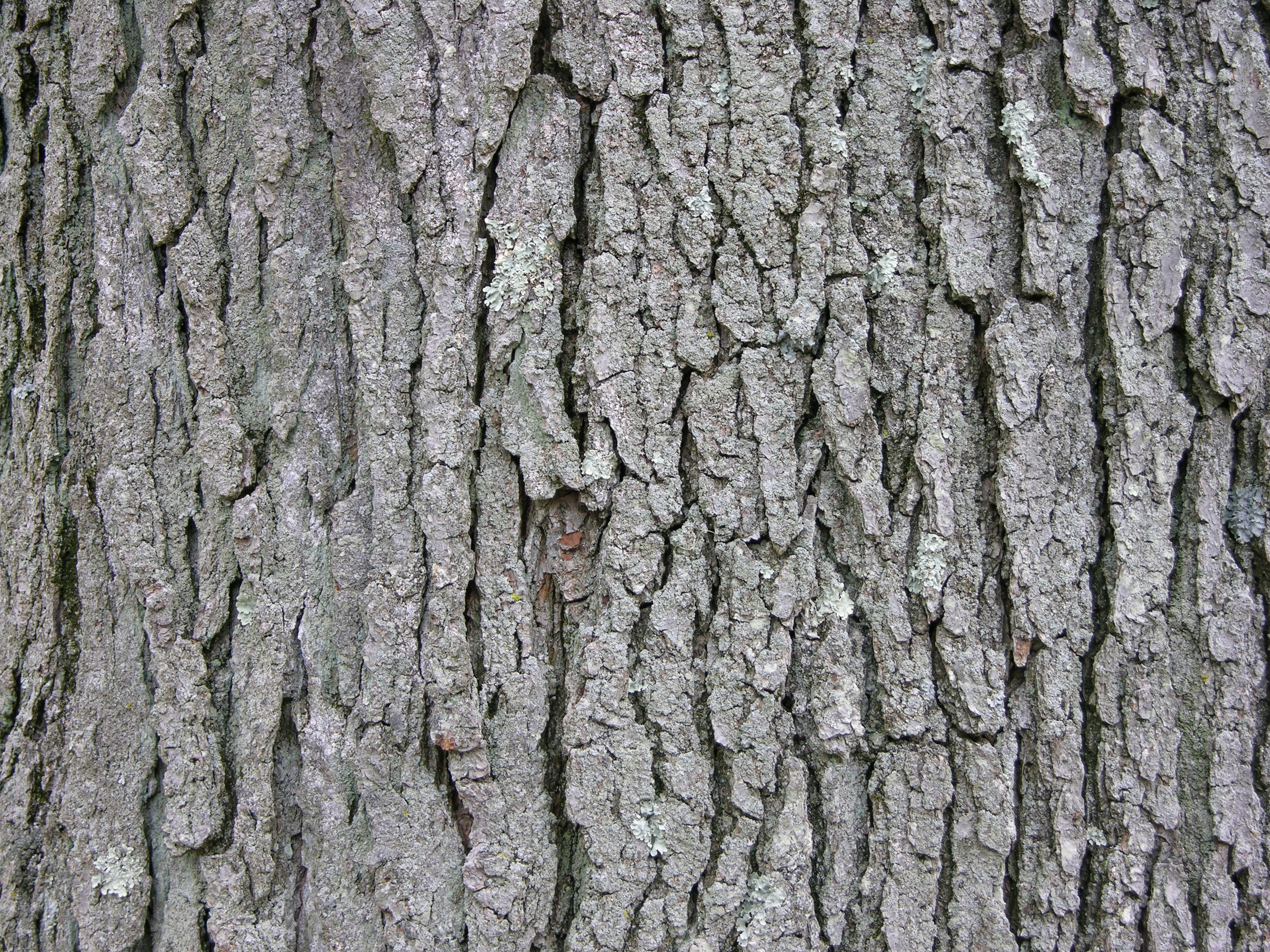 Photograph of the Kentucky Coffee-treeen (Gymnocladus dioicus en ). Photo taken at the Tyler Arboretum where it was identified.